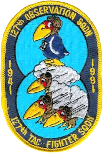 127th Fighter Squadron - 50th Anniversary Patch